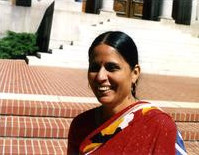 Indian mathematician